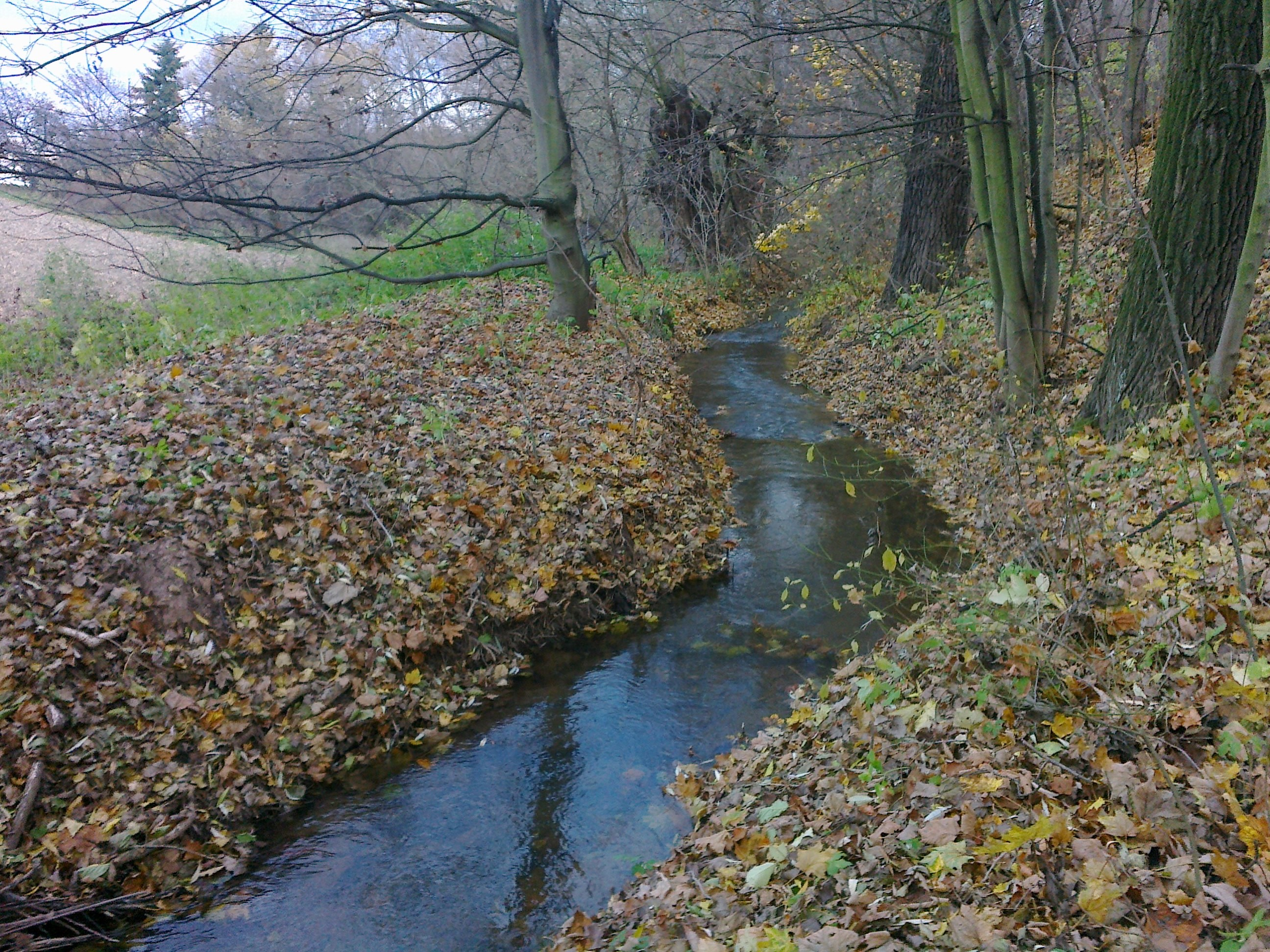 Smolnický potok between Brloh and Smolnice